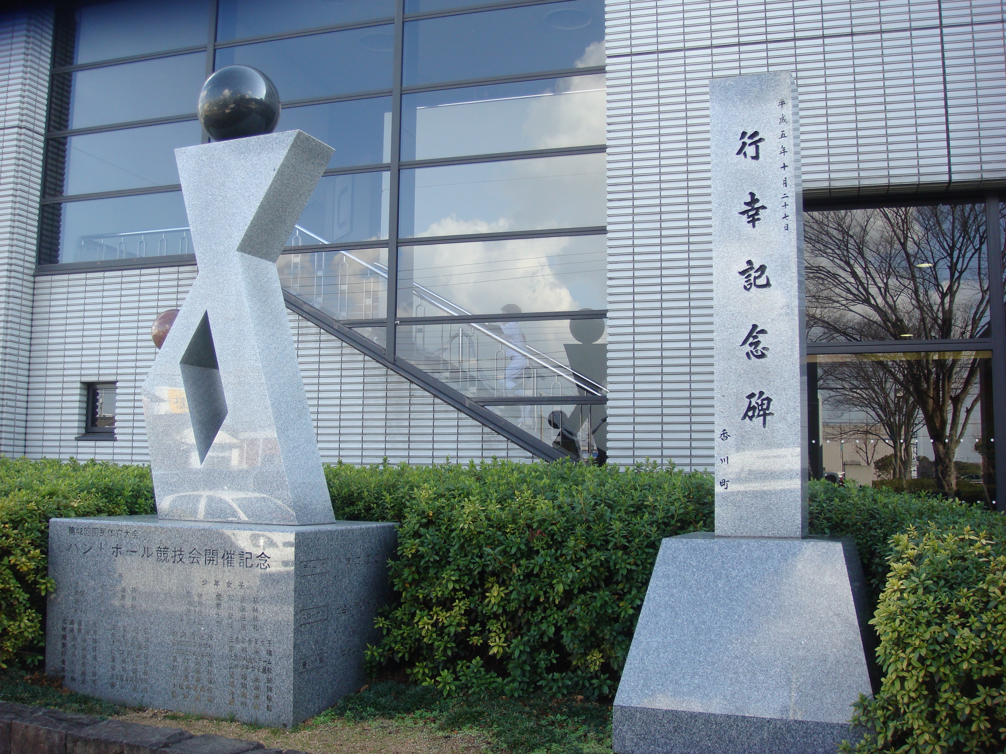 Takamatsukagawa__Gymnasium2